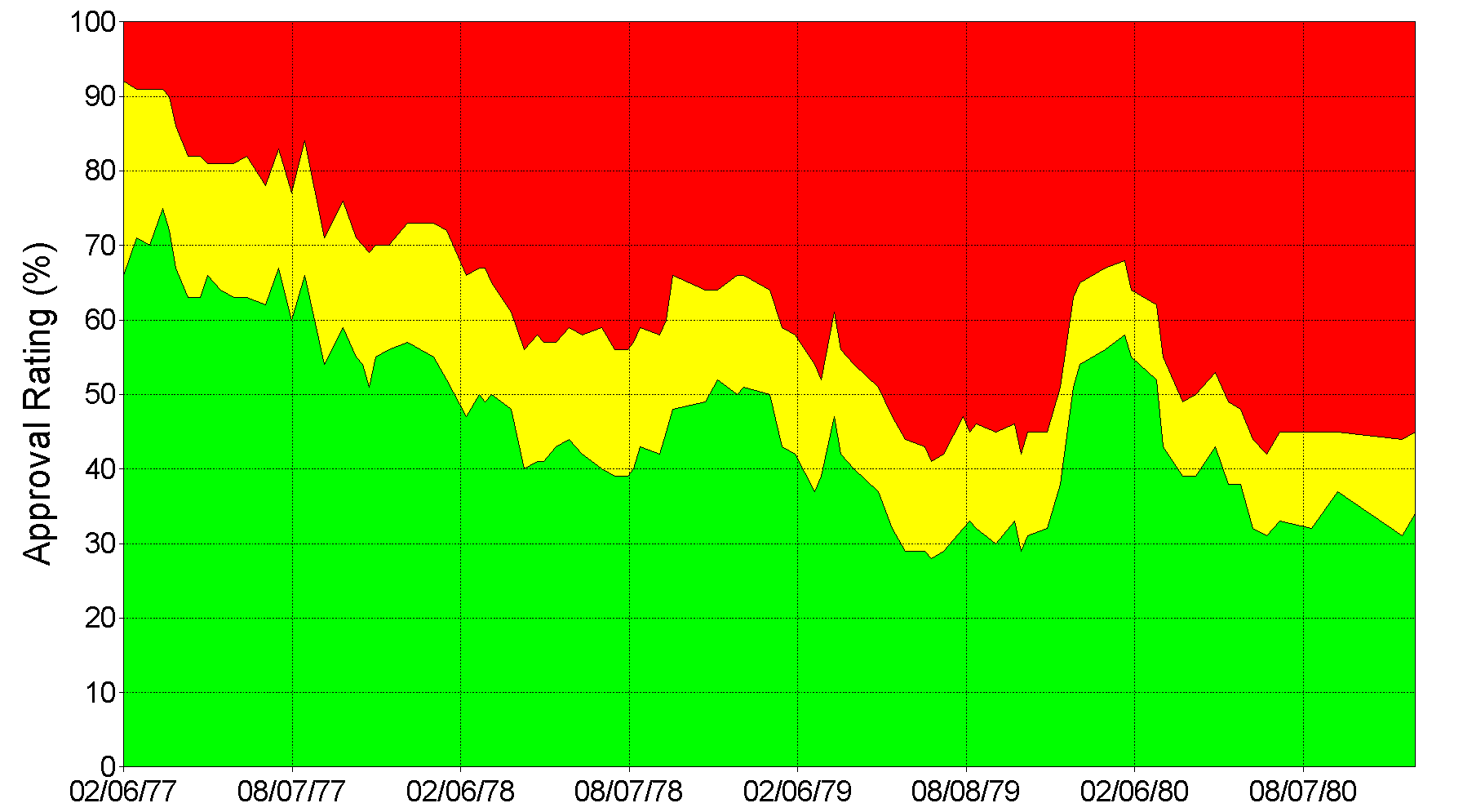 Approval Rating for Jimmy Carter. Data from Gallup Poll.